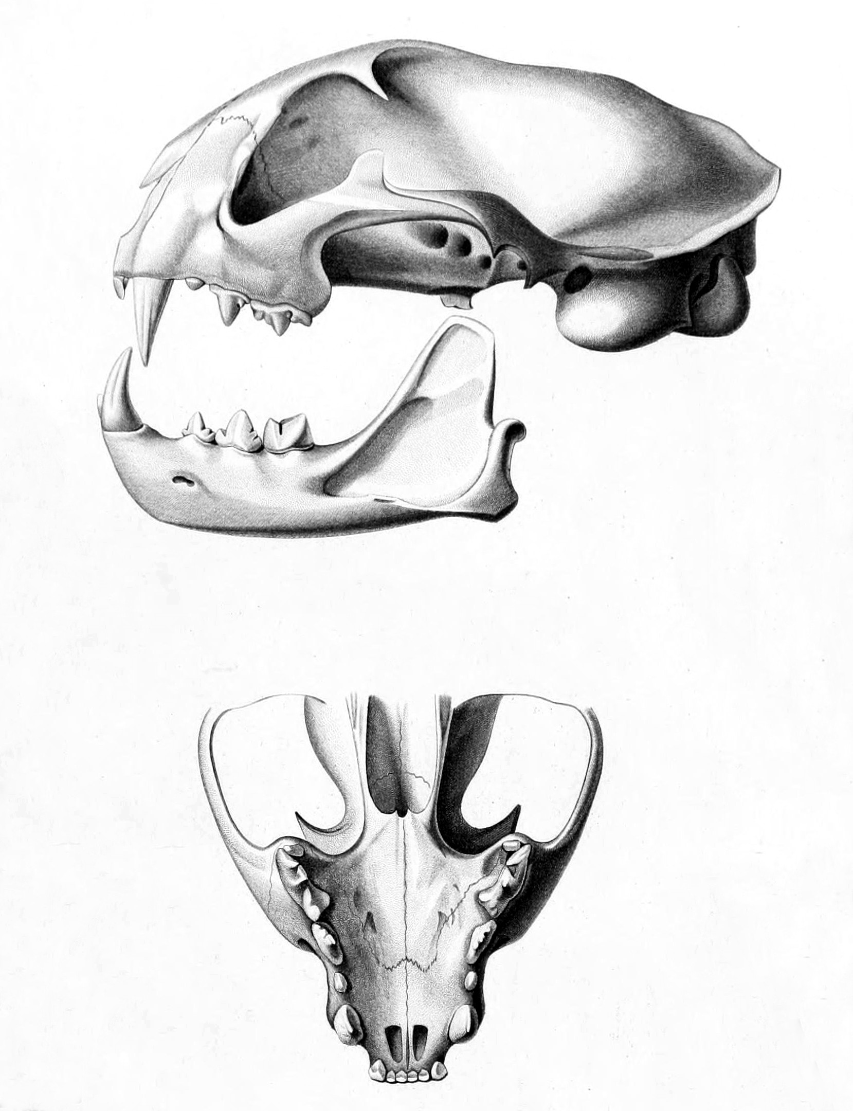 « Felis geoffroyi » = Leopardus geoffroyi (Geoffroy's cat) - skull